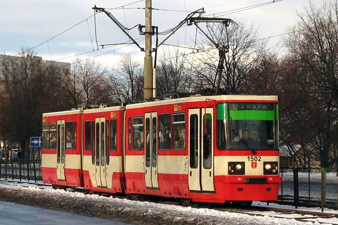 A Konstal 114Na tram in Gdańsk-Przymorze.